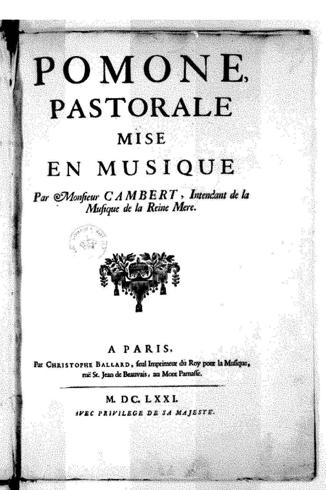 The title page of Pomone, a 1671 opera by Robert Cambert. First opera in French (but it is not a French-opera).